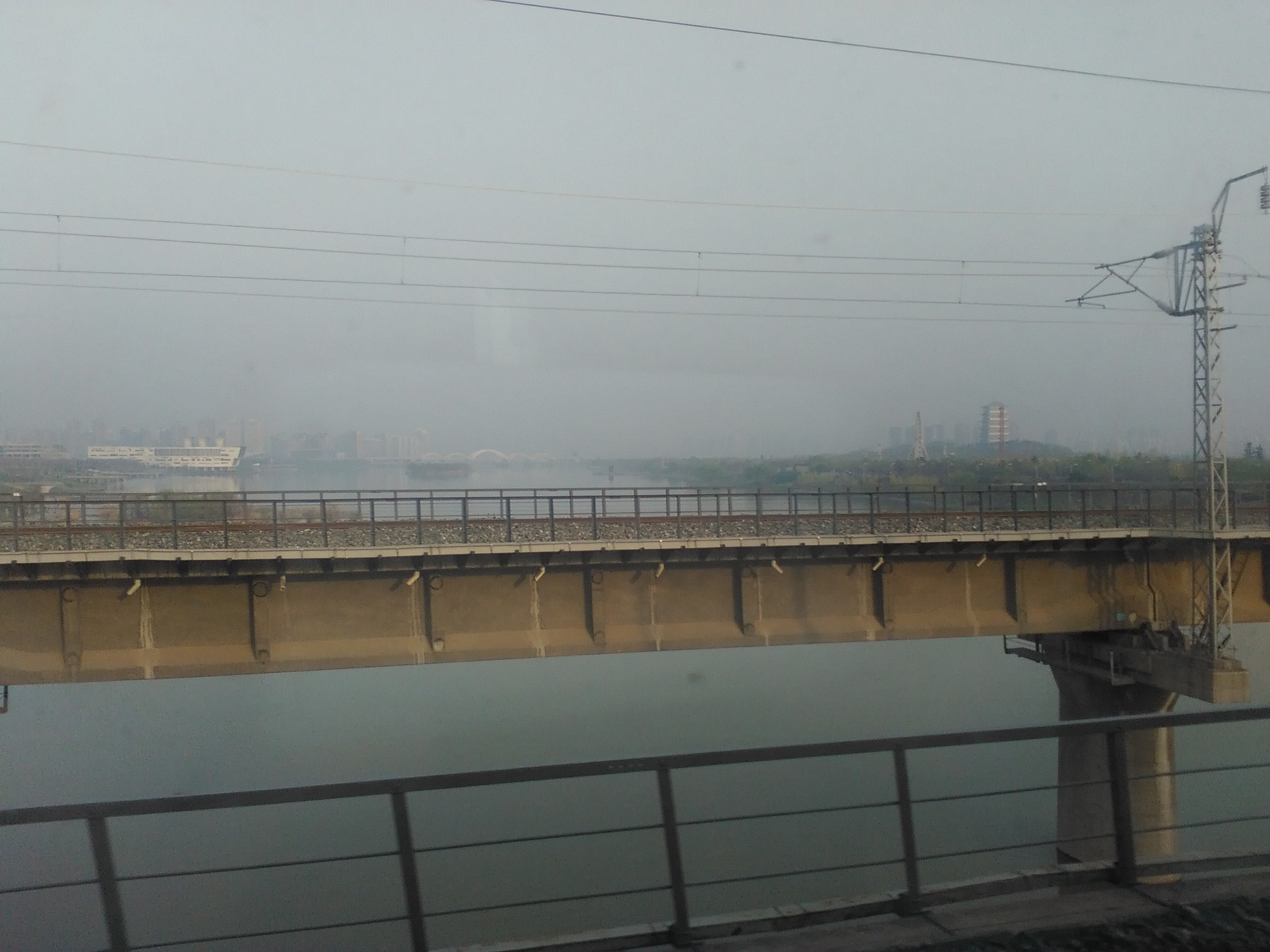 Haze Day of Xi'an, taken from Longhai Railway. The train was crossing Ba River. 中文（中国大陆）: 从陇海线（火车穿越灞河的一段）看西安雾霾。